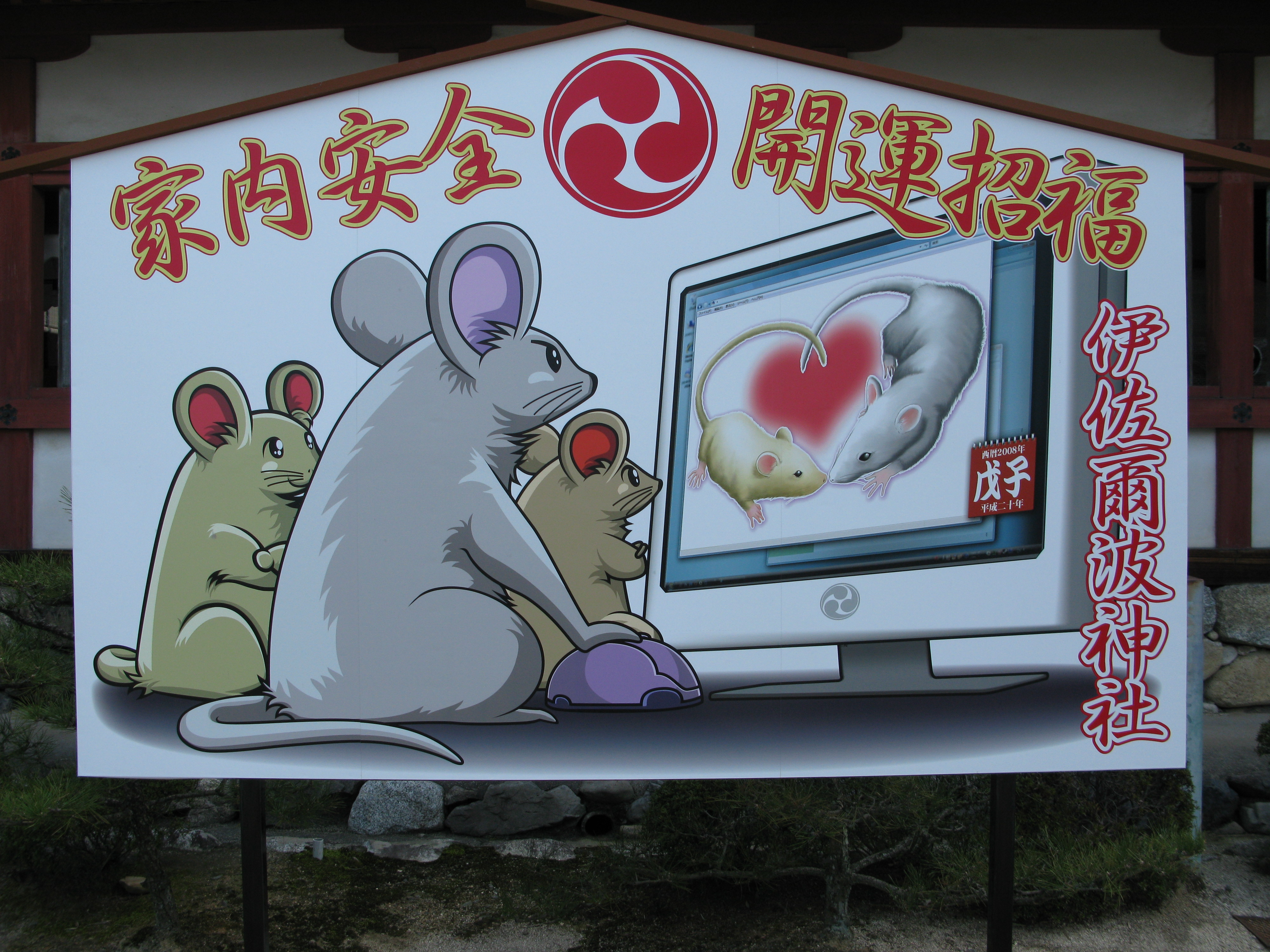 Zodiac Rats in Isaniwa Shrine, Matsuyama, Japan